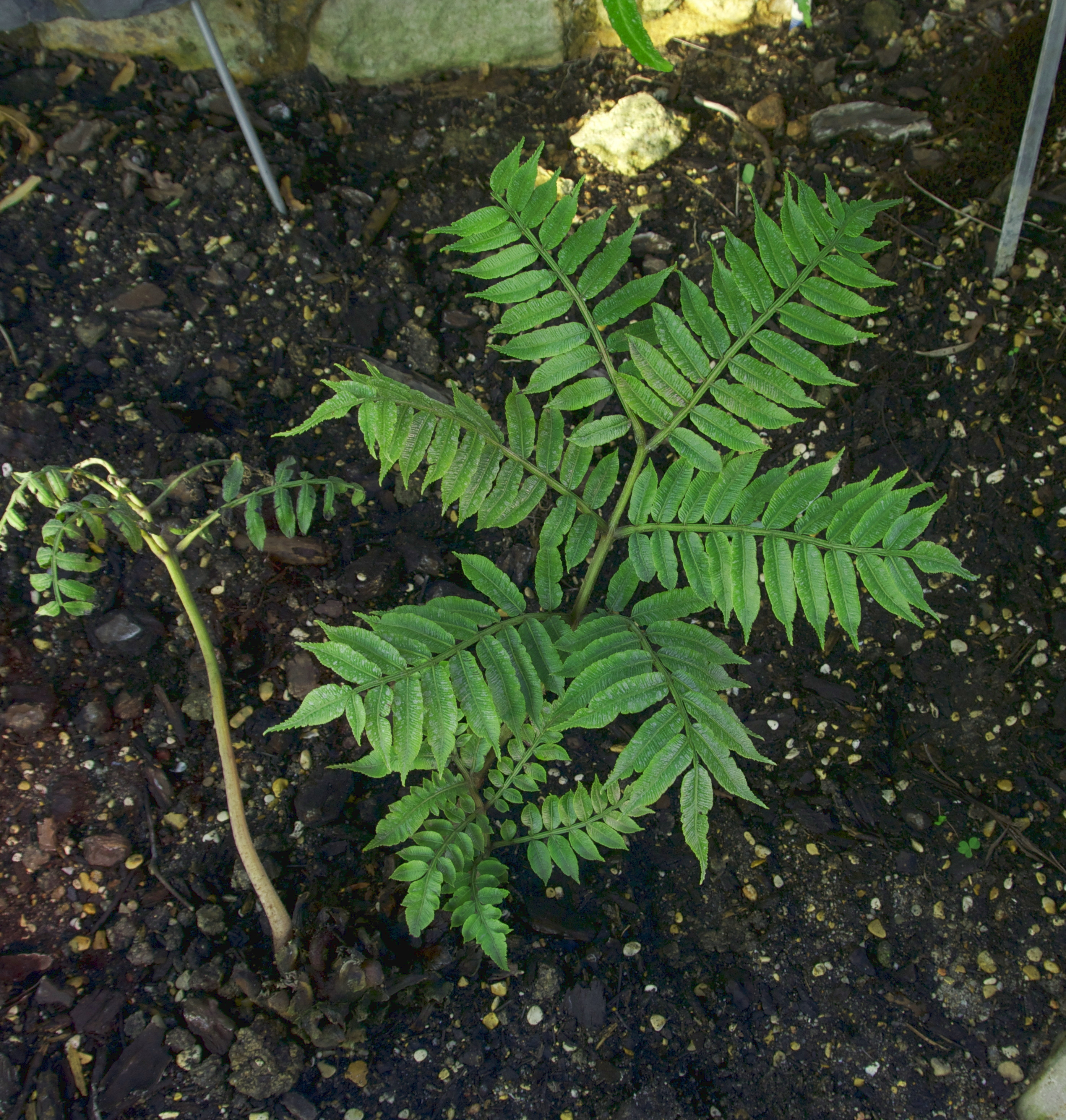 Marattia purpurascens De Vriese. Endemic of Ascension Island.